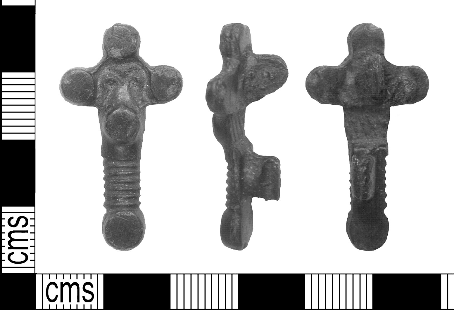 An incomplete metal bow brooch of Early-Medieval (Anglo-Saxon) date c. 45-c. 550). The brooch is cross-shaped with the top of the bow in the form of a stylised facing human head. The head and the foot as well as the ends of the wings terminate with a flat roundel. There is a fifth rounder forming the end of the enlarged nose. At the front, the lower part of the bow is ribbed horizontally to form six grooves. Viewing the brooch from the side, the pin-lug is ‘D’-shaped and the catch-plate is sub-rectangular. The pin is missing. c. 33.0 x c. 18.3mm. The above description has been made from a poor quality photograph enhanced using Photoshop. Comments by Barry Ager have also been made using the same photograph (see Notes). c. 33.0 x c. 18.3mm.